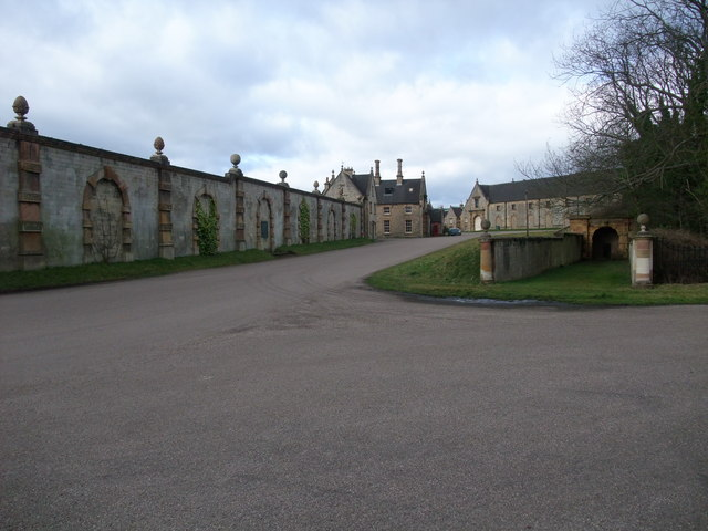 Part of the Welbeck Estate buildings A bronze plaque in the middle of the long wall commemorates the St John's Ambulance Brigade's (Welbeck Division) service in the Boer War. I presume the archway on the right is an entrance to one of the famous Welbeck tunnels.